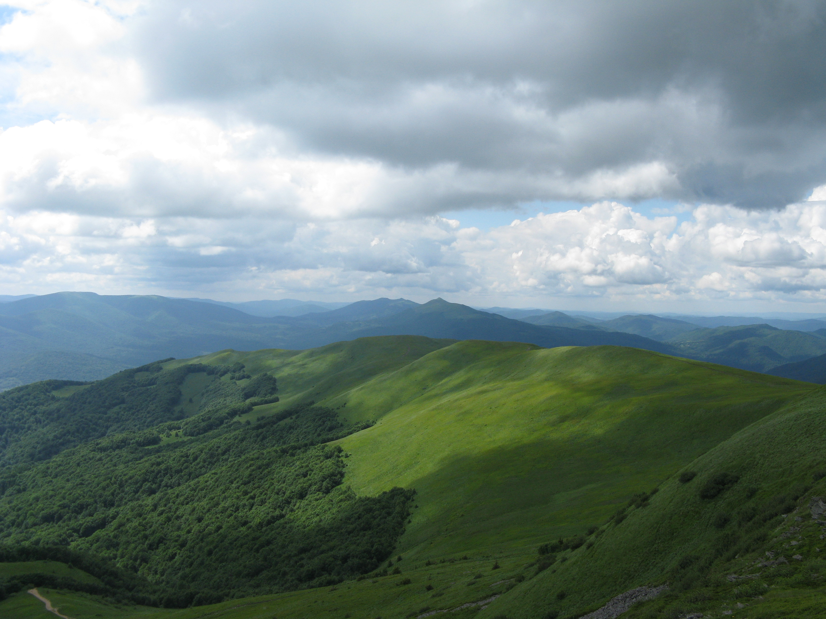 Szeroki Wierch seen from Tarnica